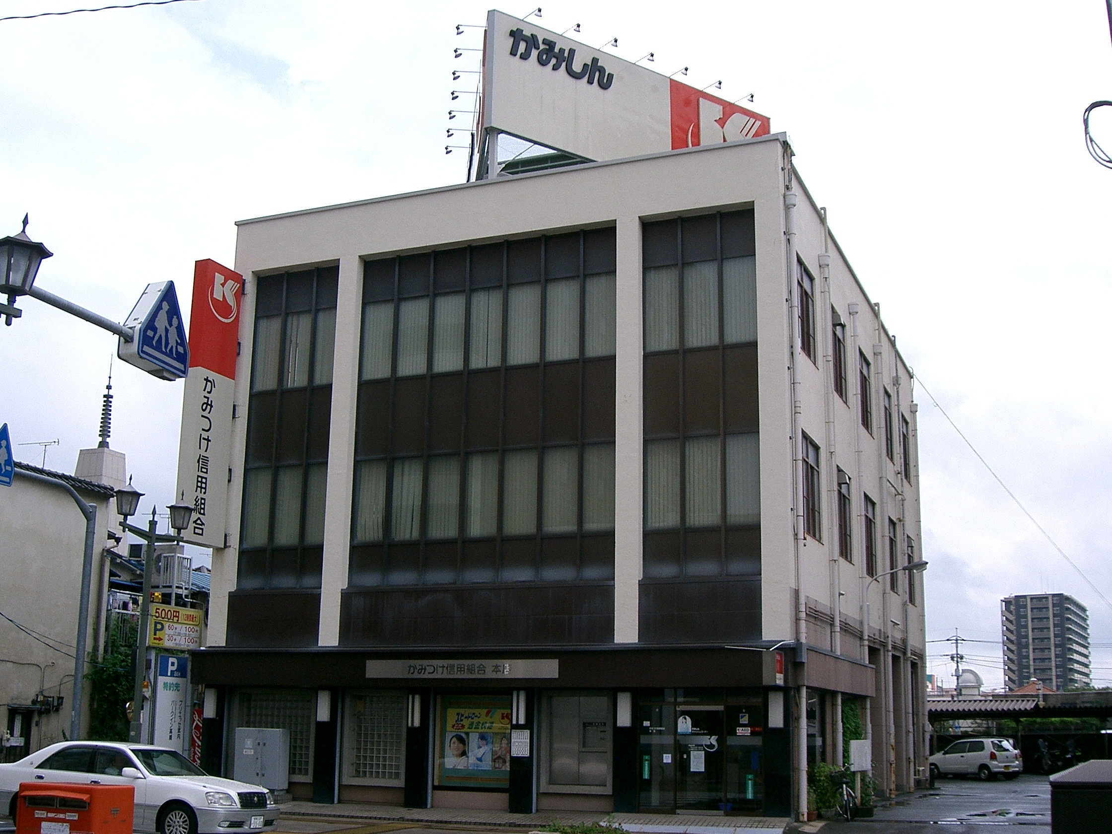 Head office of Kamitsuke Credit Union